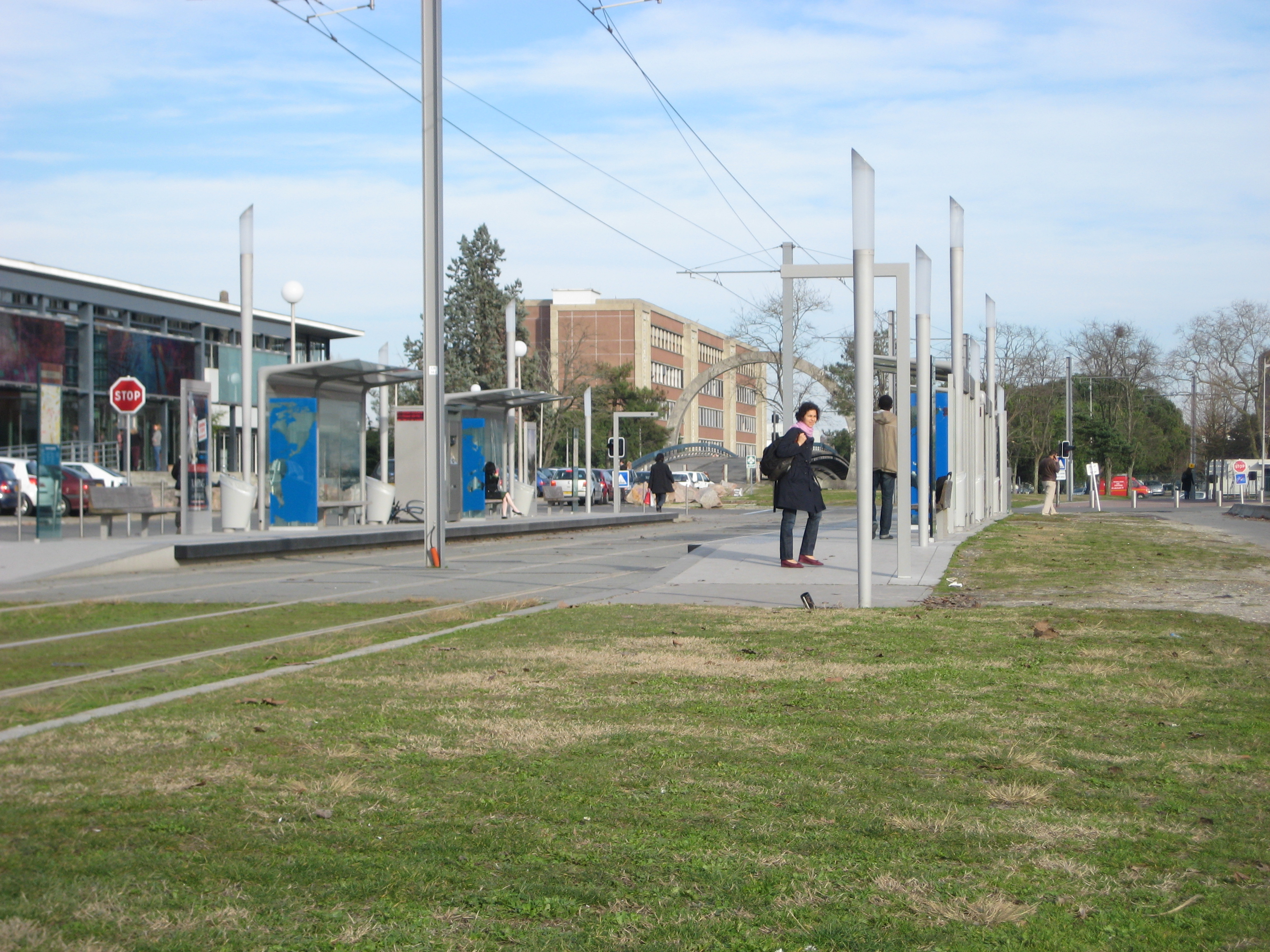 Station Arts et Métiers on the Tramway de Bordeaux